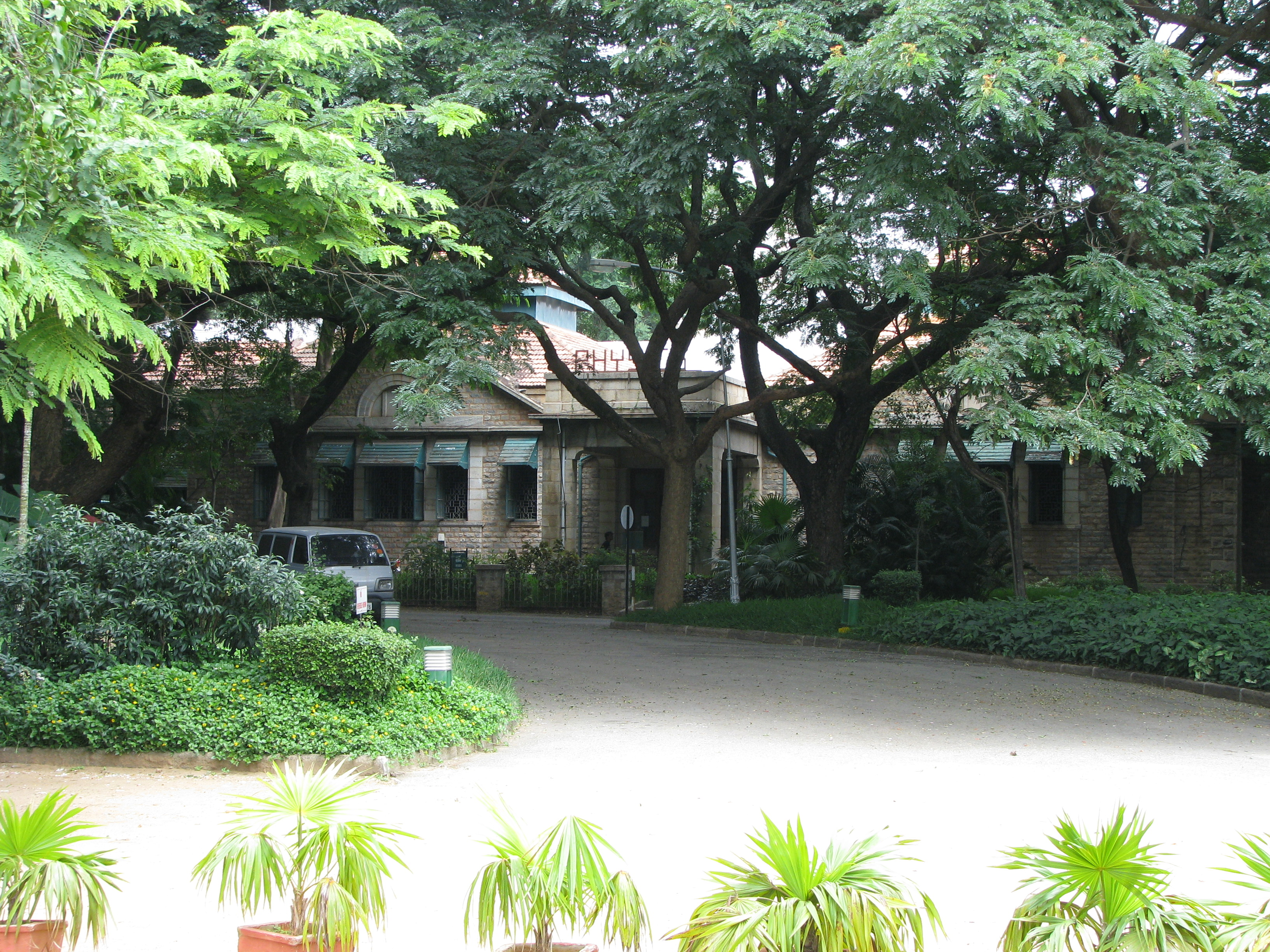 Physics Department building, IISc, Bangalore